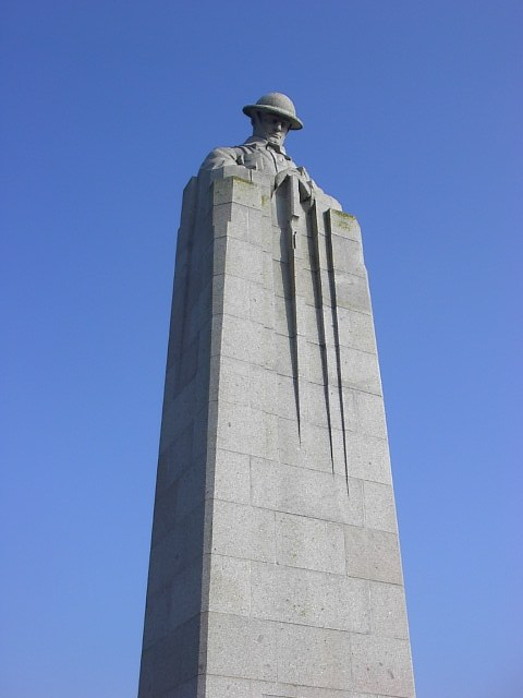 Monument for the WW1 soldiers from Canada. The Brooding Soldier. Langemark, West Flanders, Belgium